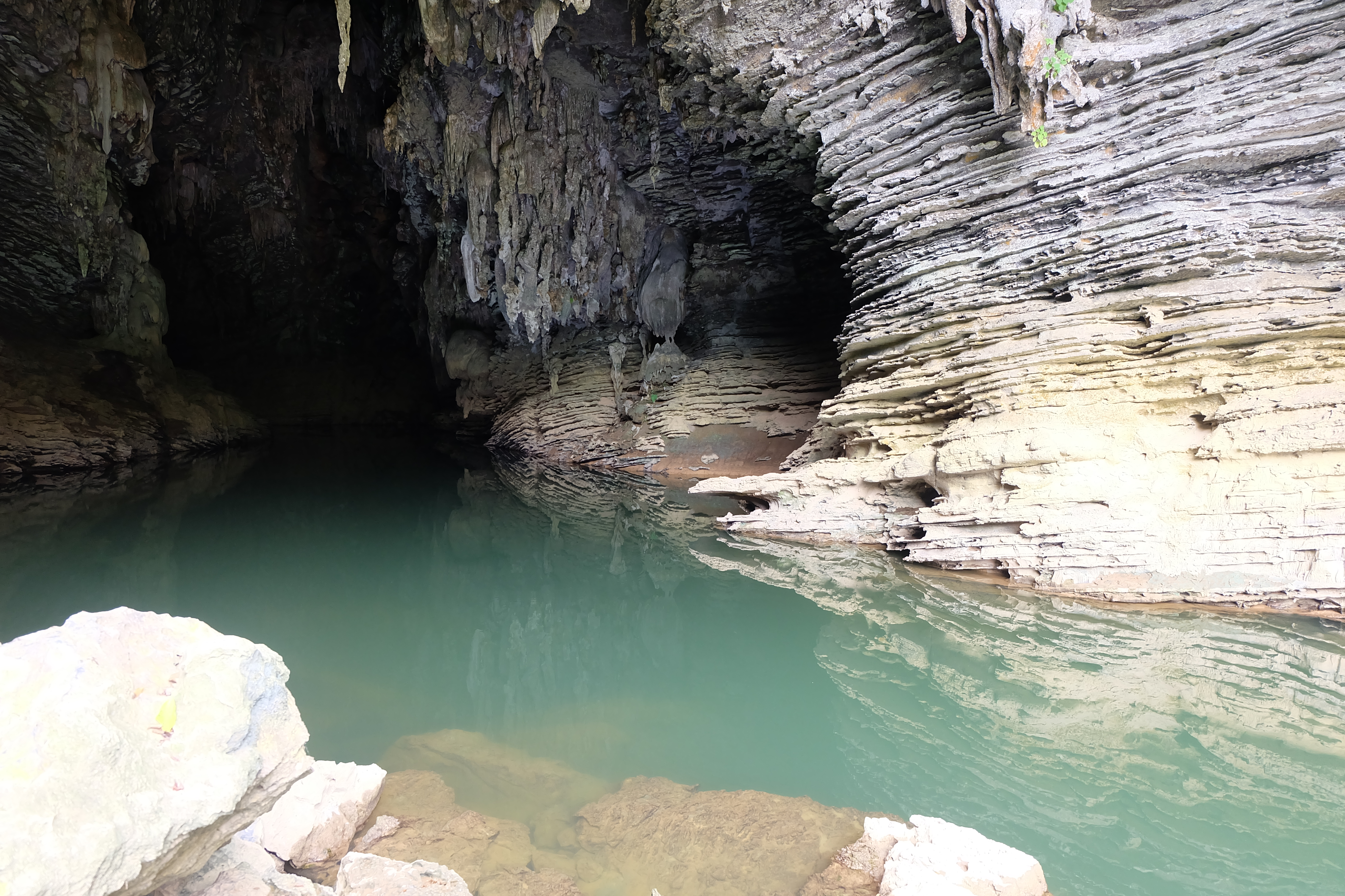 Ken Cave